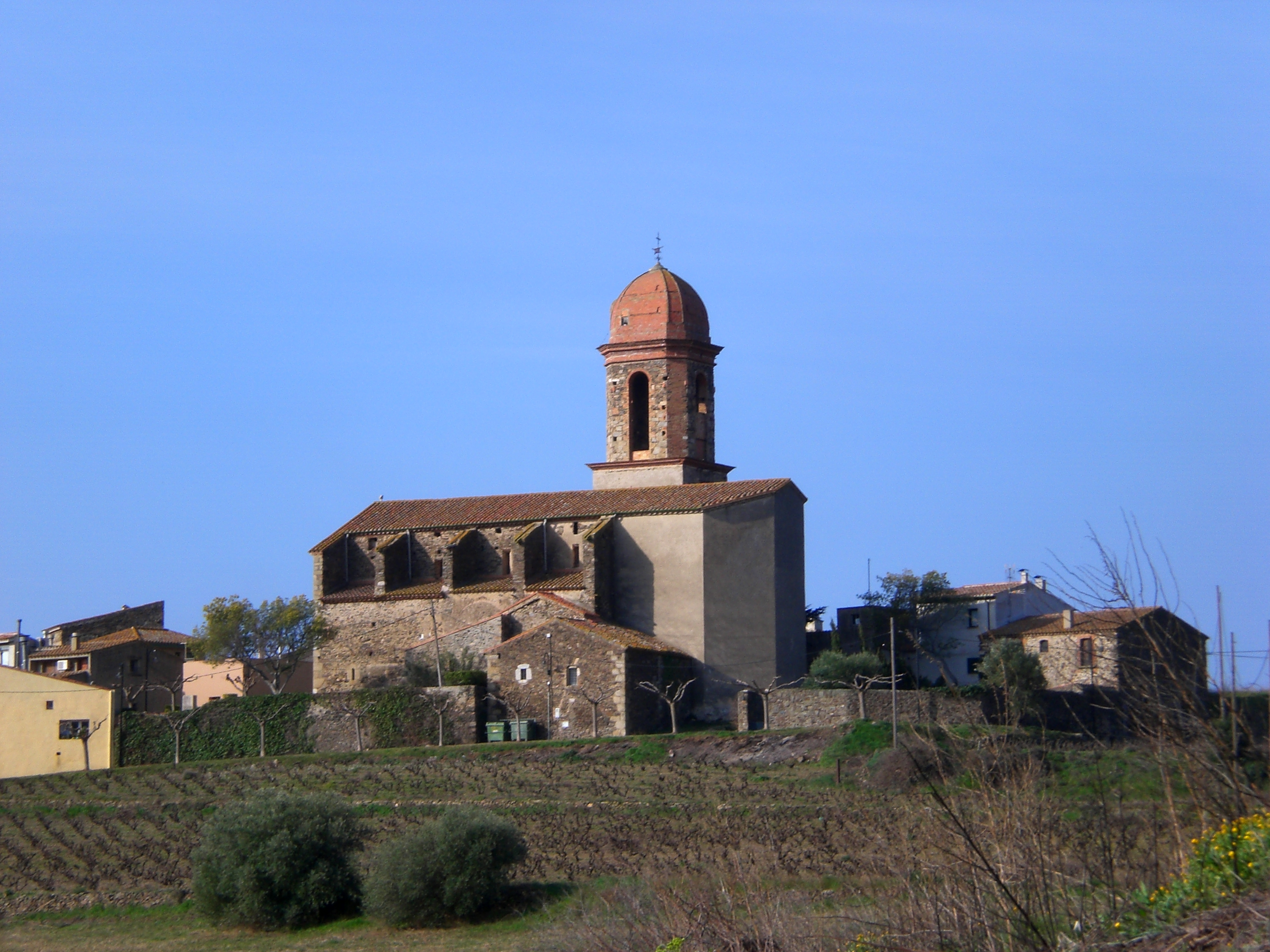 Church of Espolla